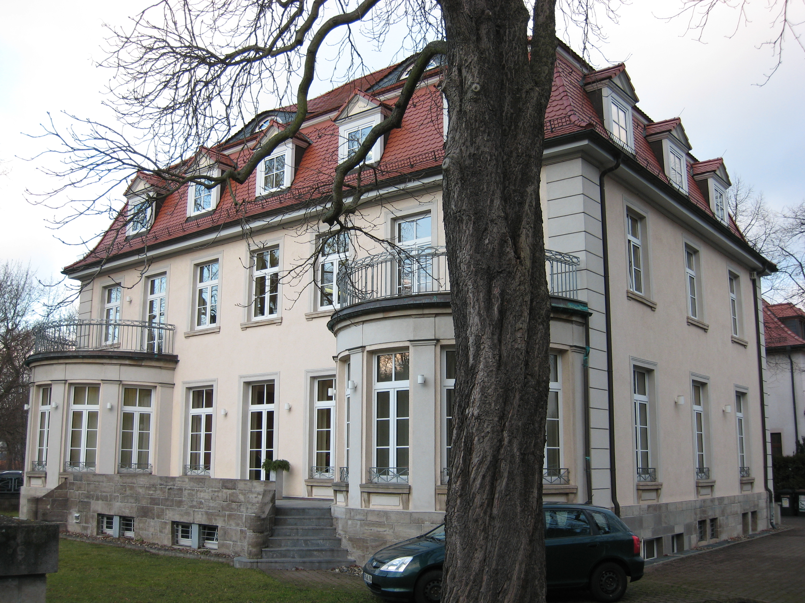 Alfred Hess Villa Erfurt (View from Alfred-Hess-Straße)